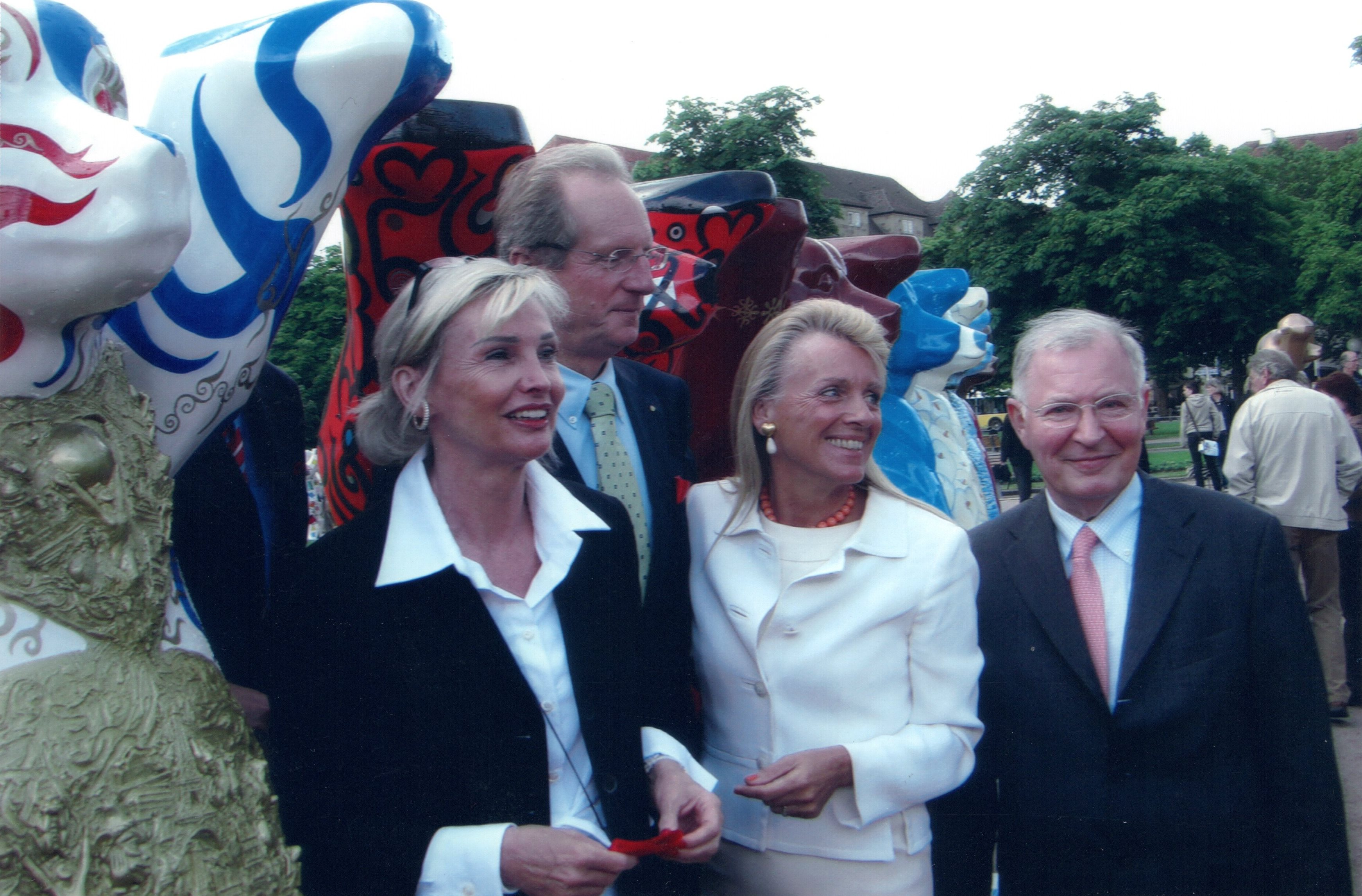 Opening of the United Buddy Bears, Stuttgart, 2008